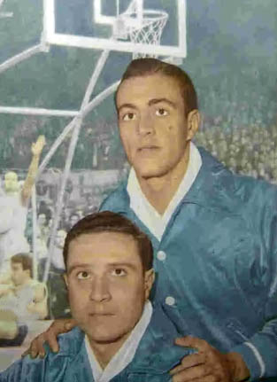 Antonio Tozzi (up) and Rubén Mascetti with the Argentina national basketball team, as covered on El Gráfico magazine.